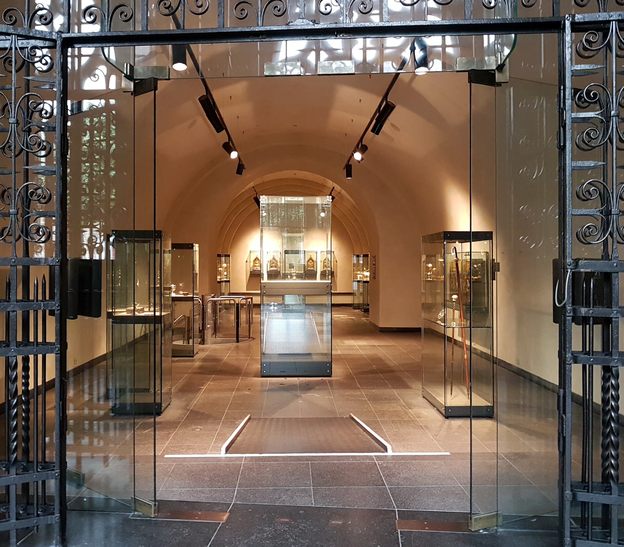 View of the entrance area of the Treasury of the Basilica of Saint Servatius in Maastricht, Netherlands. This photo was taken during the Heiligdomsvaart pilgrimage, a seven-yearly religious and cultural festival that dates back to the Middle Ages. It meant that many objects had been removed from the Treasury to be shown in the church on Saturday 2 June, or to be included in the procession on Sunday 3 June. The empty showcase in the centre for instance usually contains the silver-gilded reliquary bust of Saint Servatius.